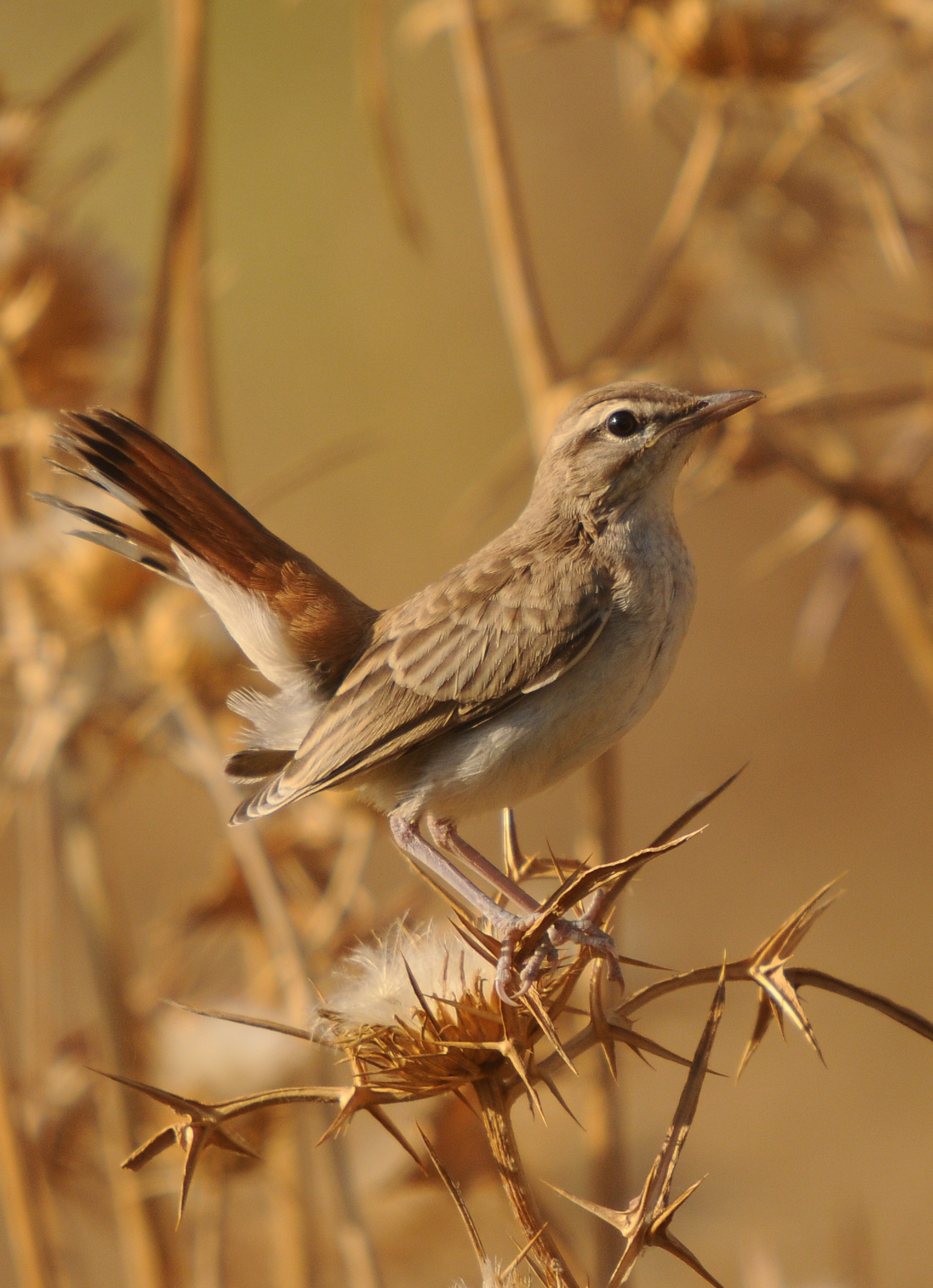 EN:Rufous bush robin